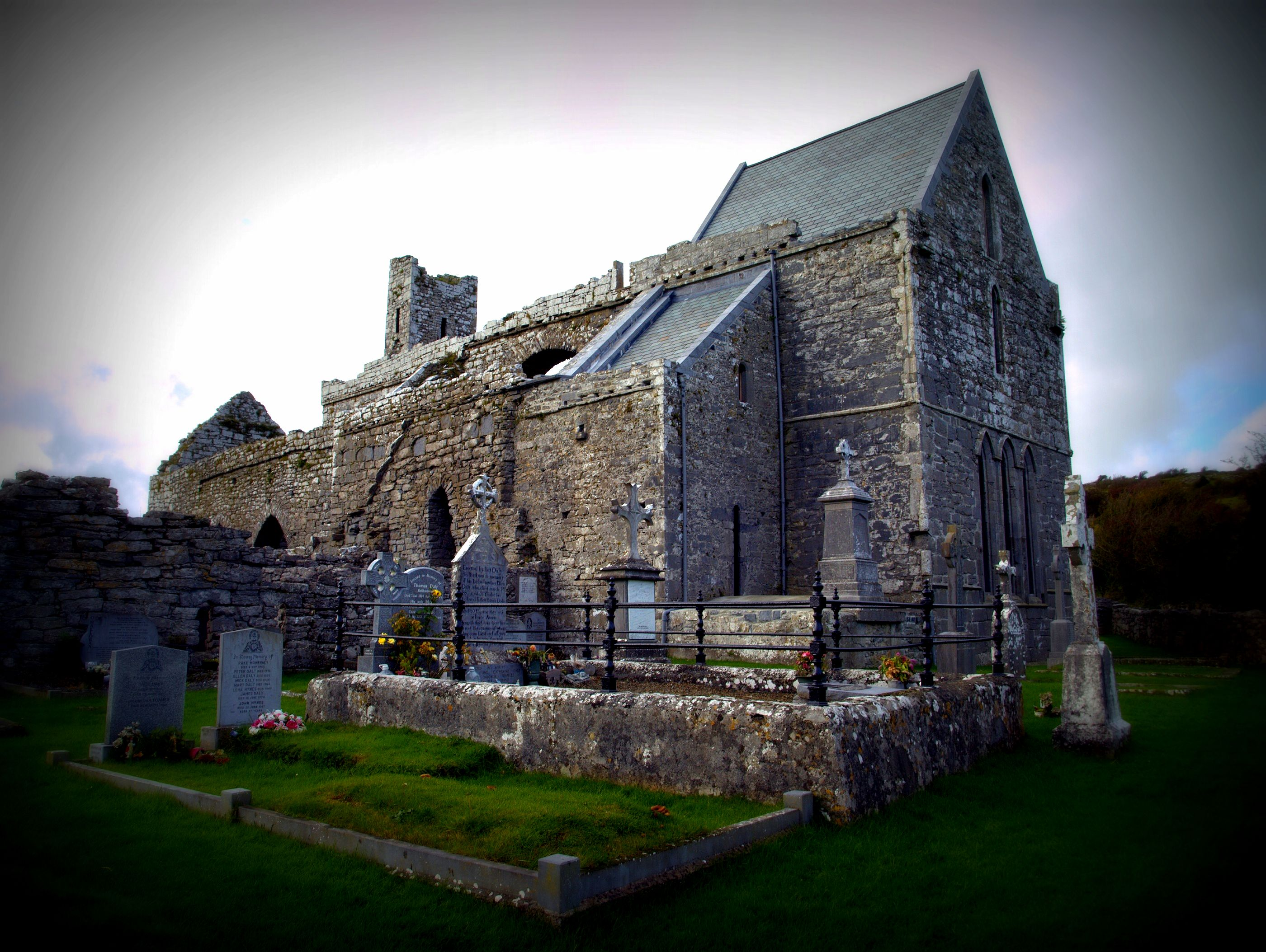 It took a long time to find this 13th Century place on the north edge of the Burren, but was well worth the journey.